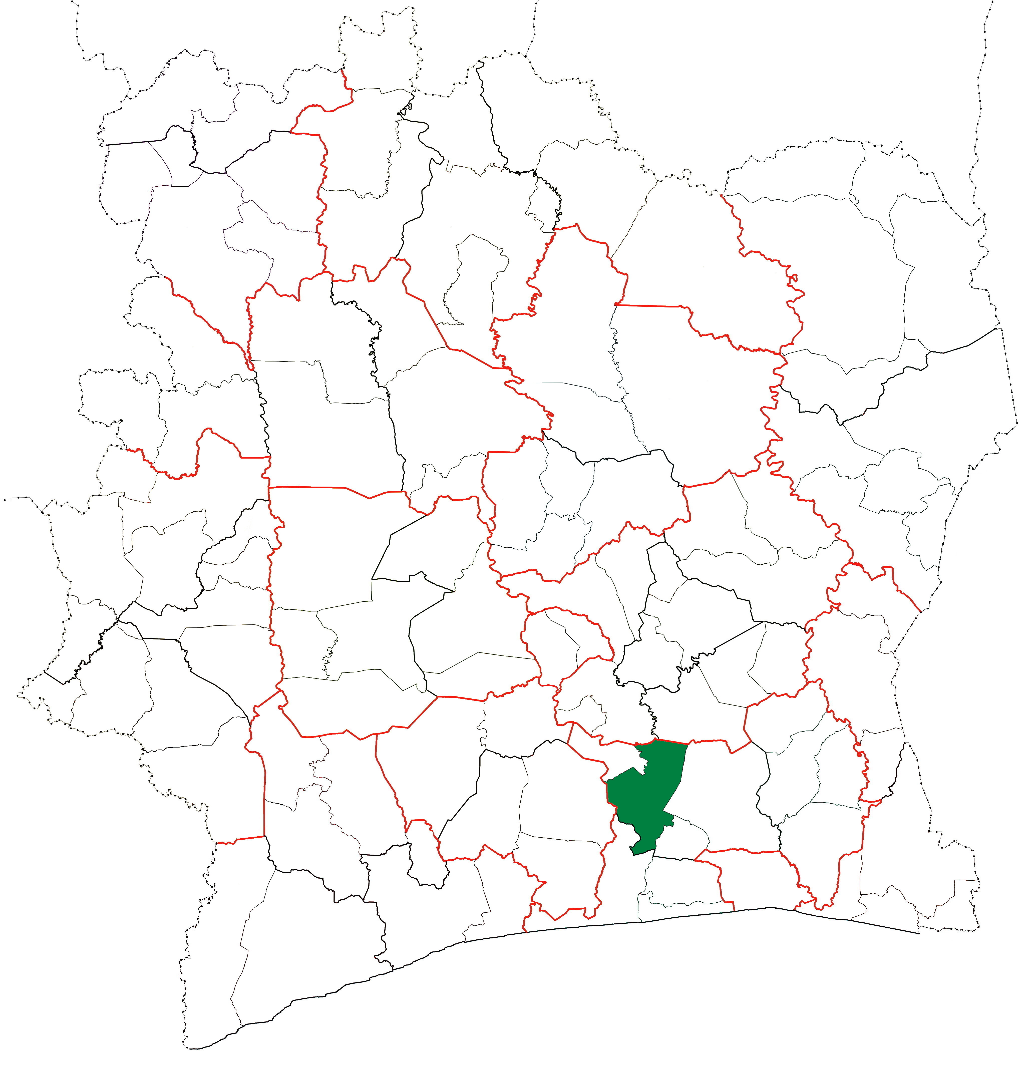 Locator map for Tiassalé Department in Côte d'Ivoire.